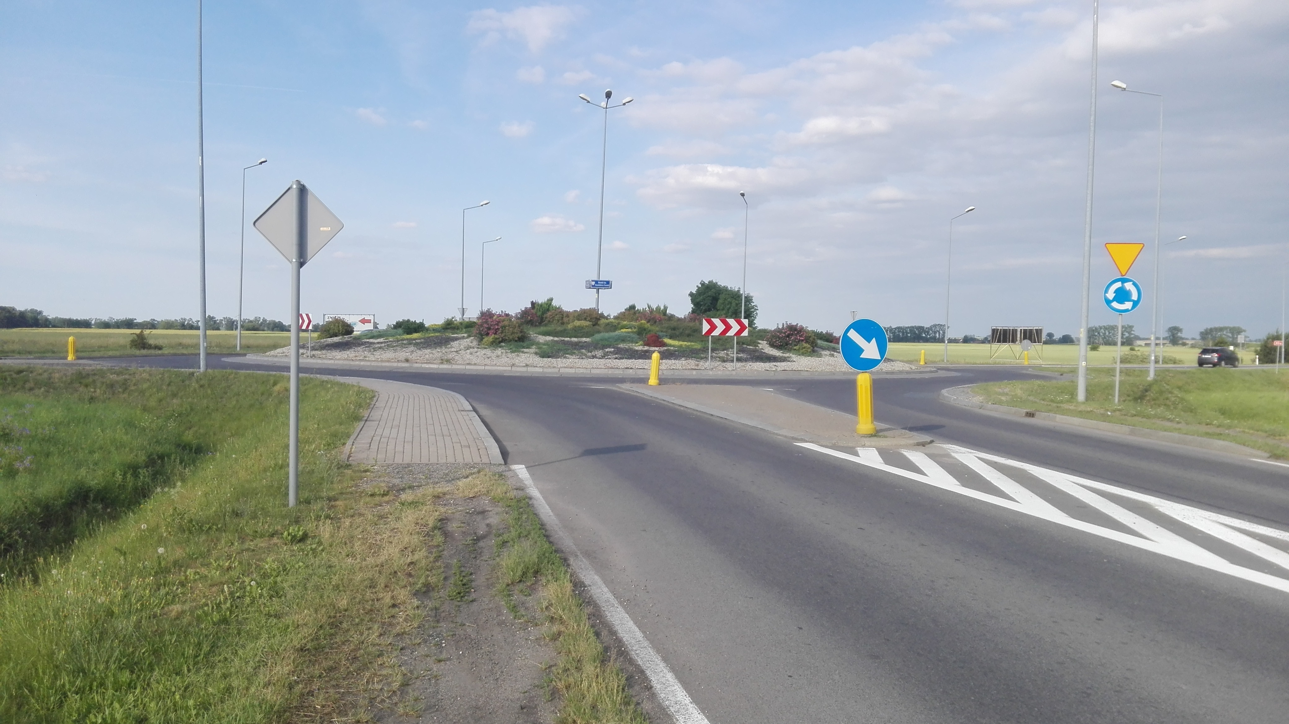 Powstańców Śląskich Street in Prudnik